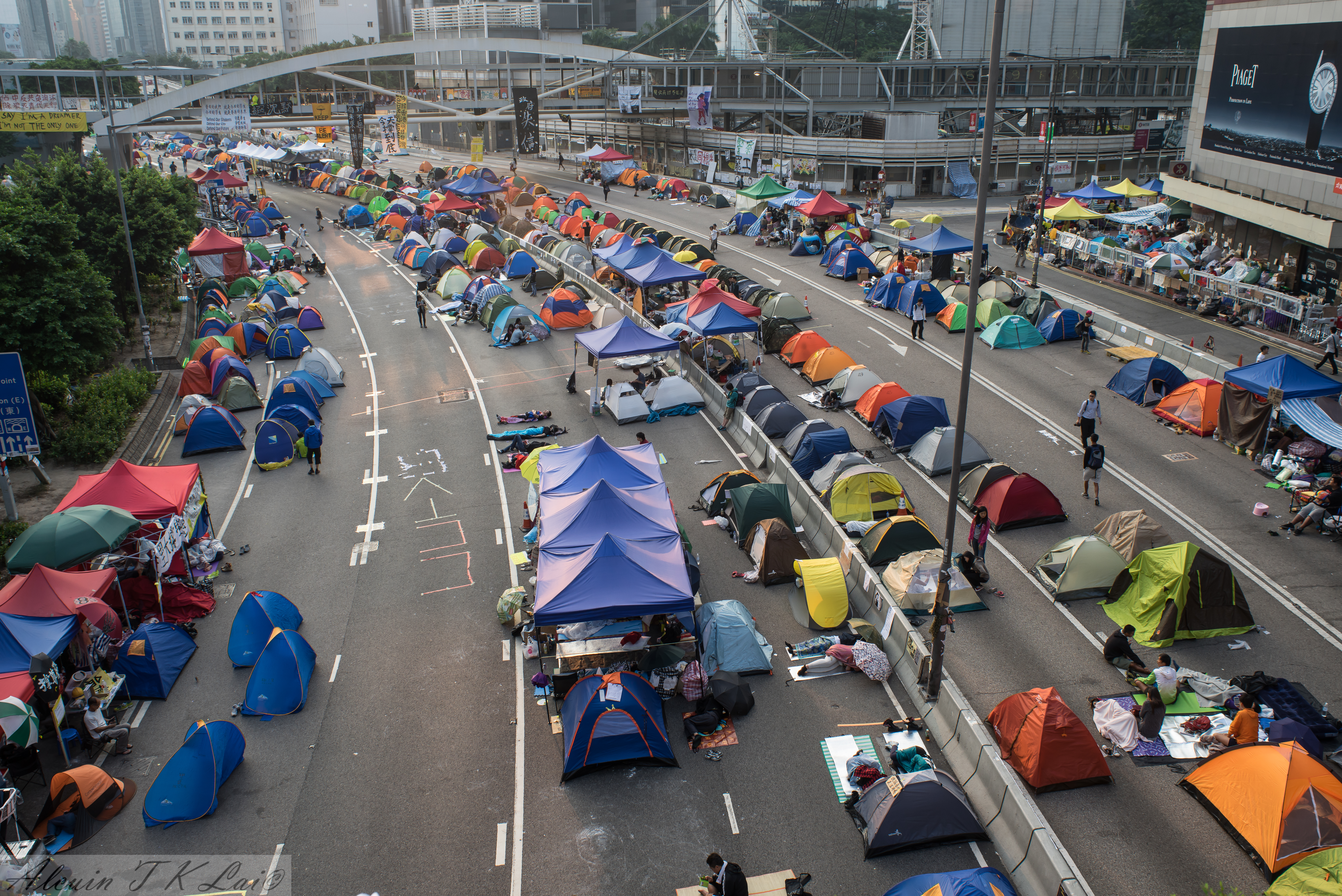 Umbrella Revolution Harcourt Road Day view